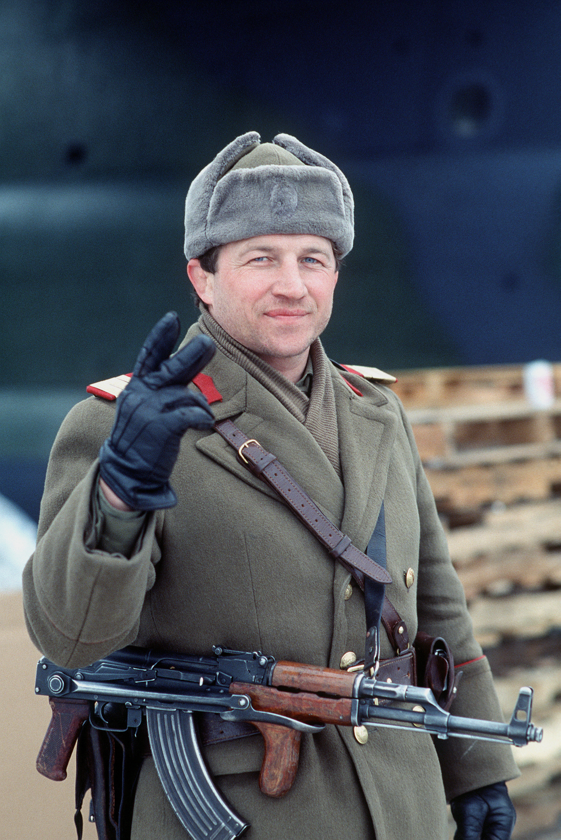 A Romanian soldier stands guard on the flight line as medical supplies from the U.S. Army Medical Materiel Center in Pirmasens, West Germany, are unloaded from a 37th Tactical Airlift Squadron C-130 Hercules aircraft at the Bucharest airport. Provided by the 7th Medical Command, the supplies are part of a relief effort for citizens of the revolt-torn country. The soldier is armed with an AKM assault rifle.